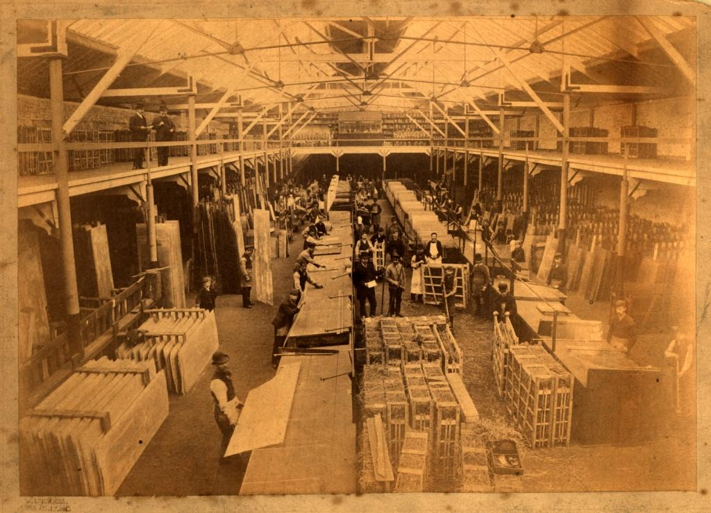 Packing shed at Hertley Wood's Wear Glass Works June 1889